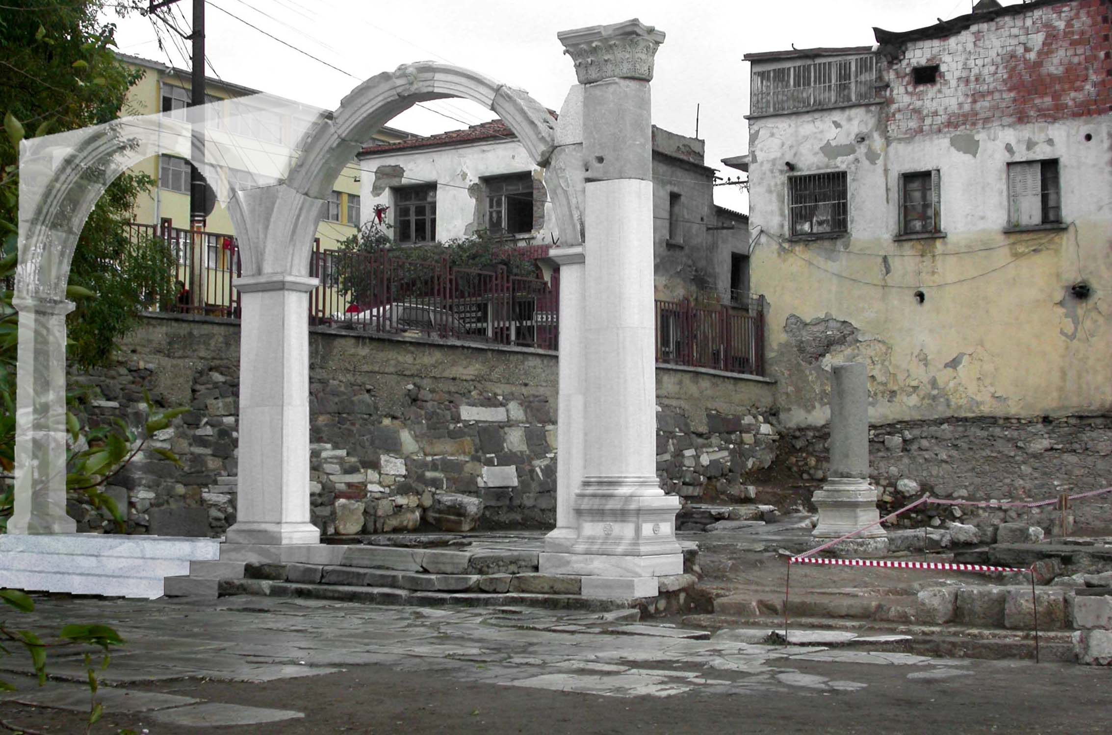 Reconstructed Entrance of the Roman Agora (Smyrna)